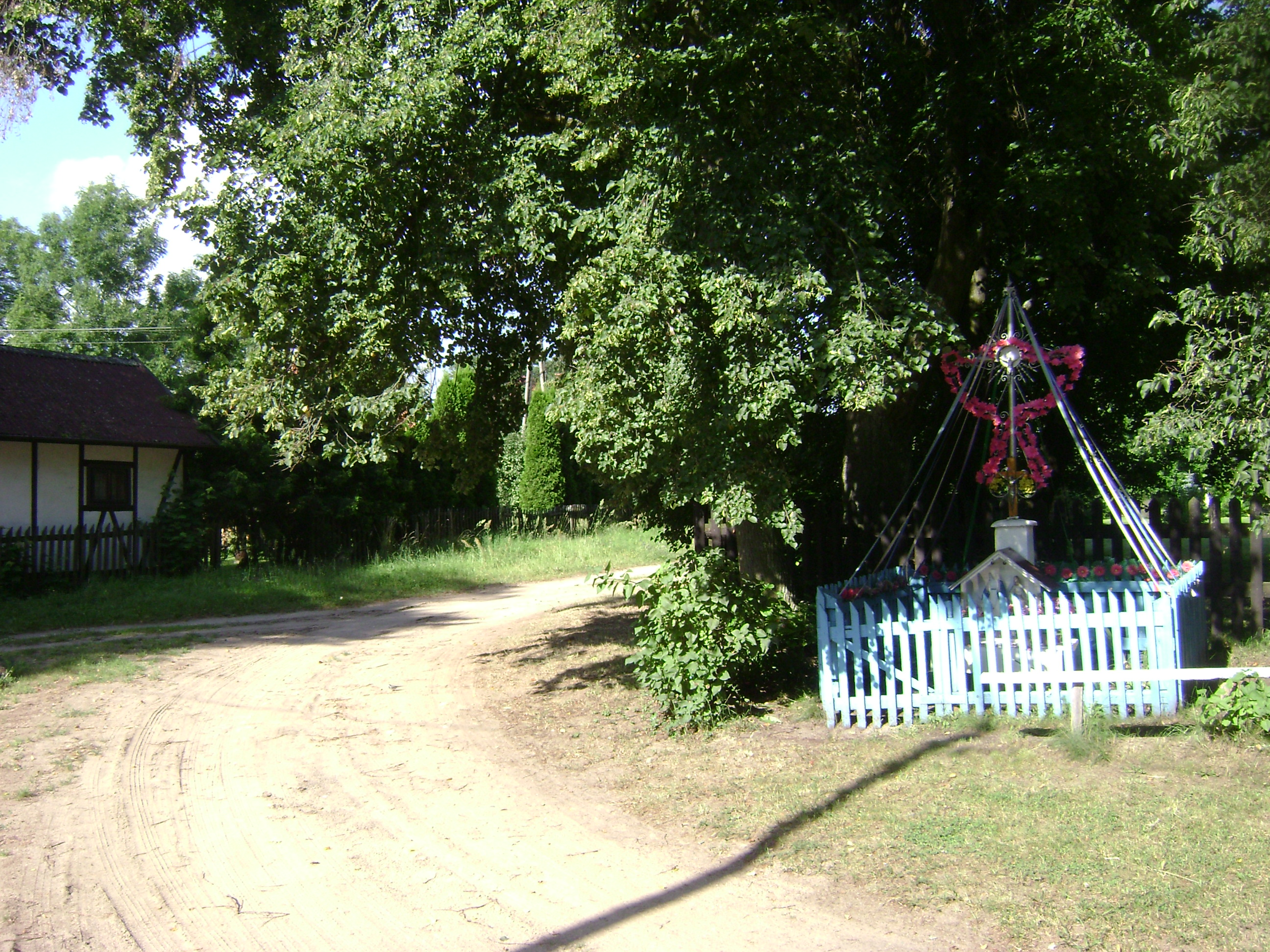 Poland. Gmina Szczytno. Sędańsk